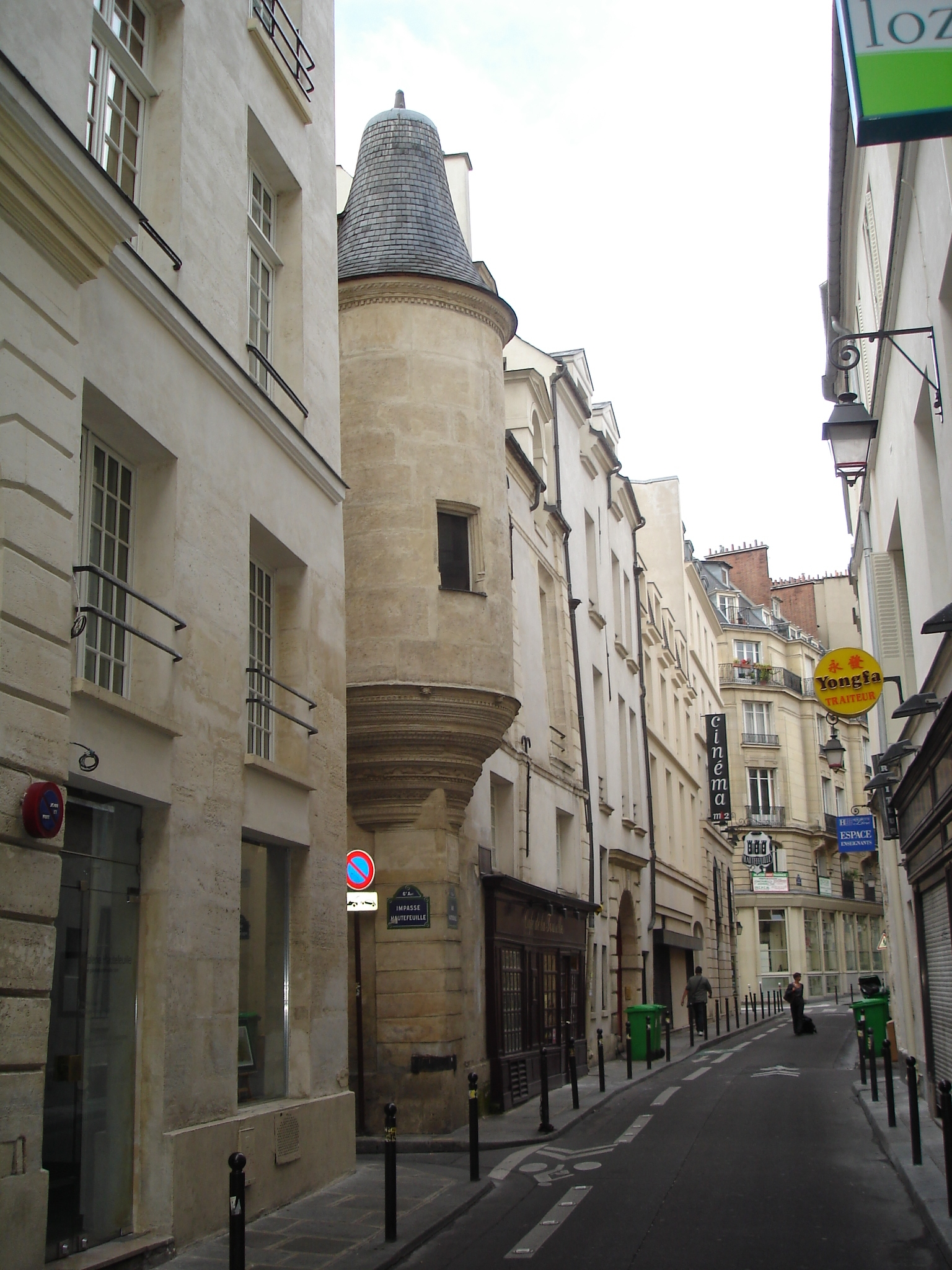 5 rue Hautefeuille in Paris. "Hôtel particulier" of the 16 century with bartizan.